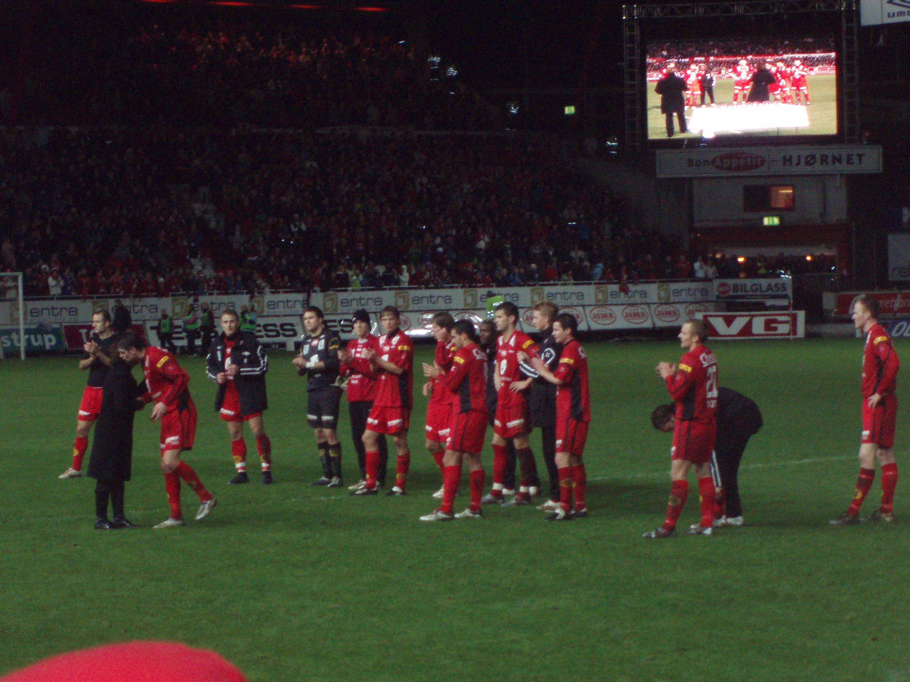 SK Brann in the march for the silvermedal in 2006